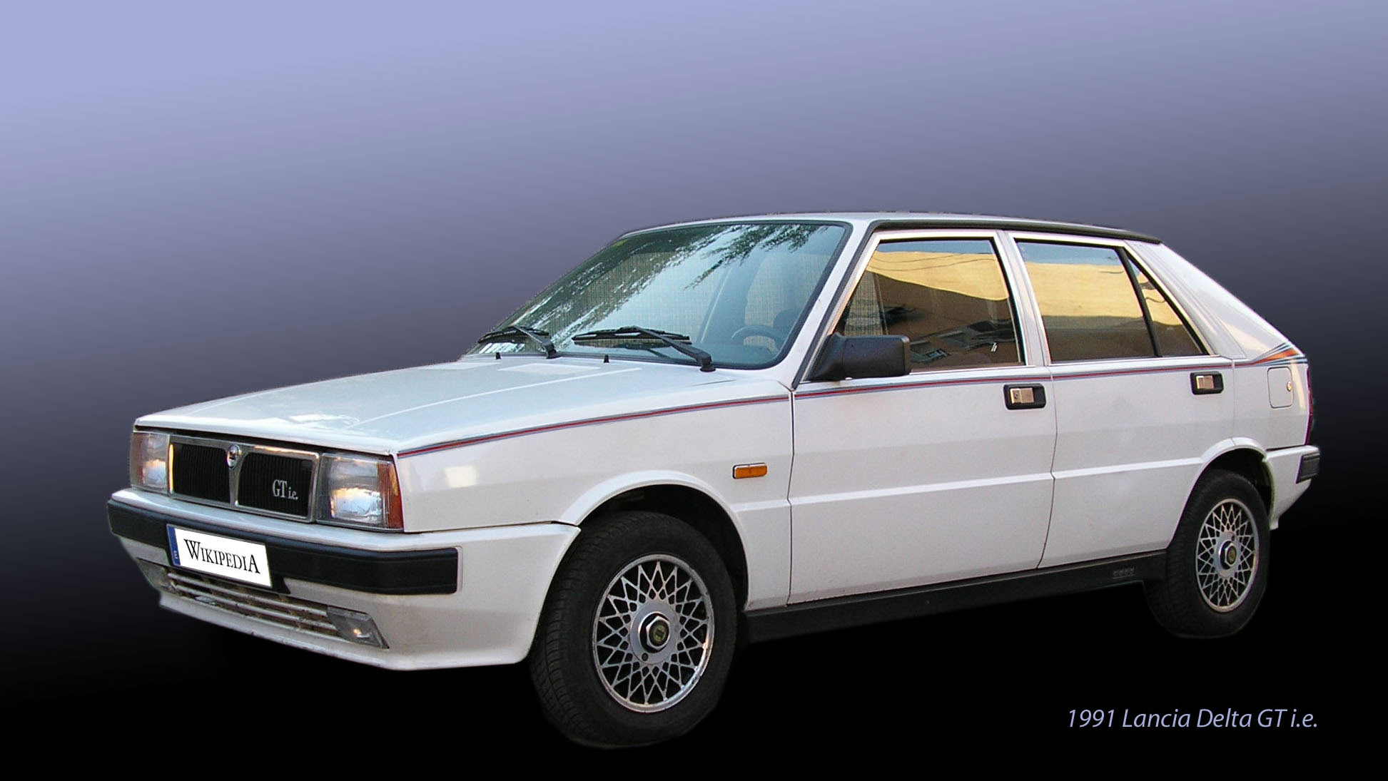 1991 Lancia Delta GT i.e. Special Edition: Mondiale. Picture taken by me, Barahonasoria, and released under GFDL